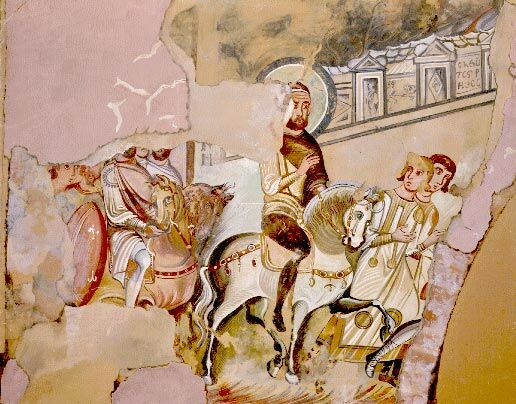 Fresco in church of Saint Demetrius (Thessaloniki)